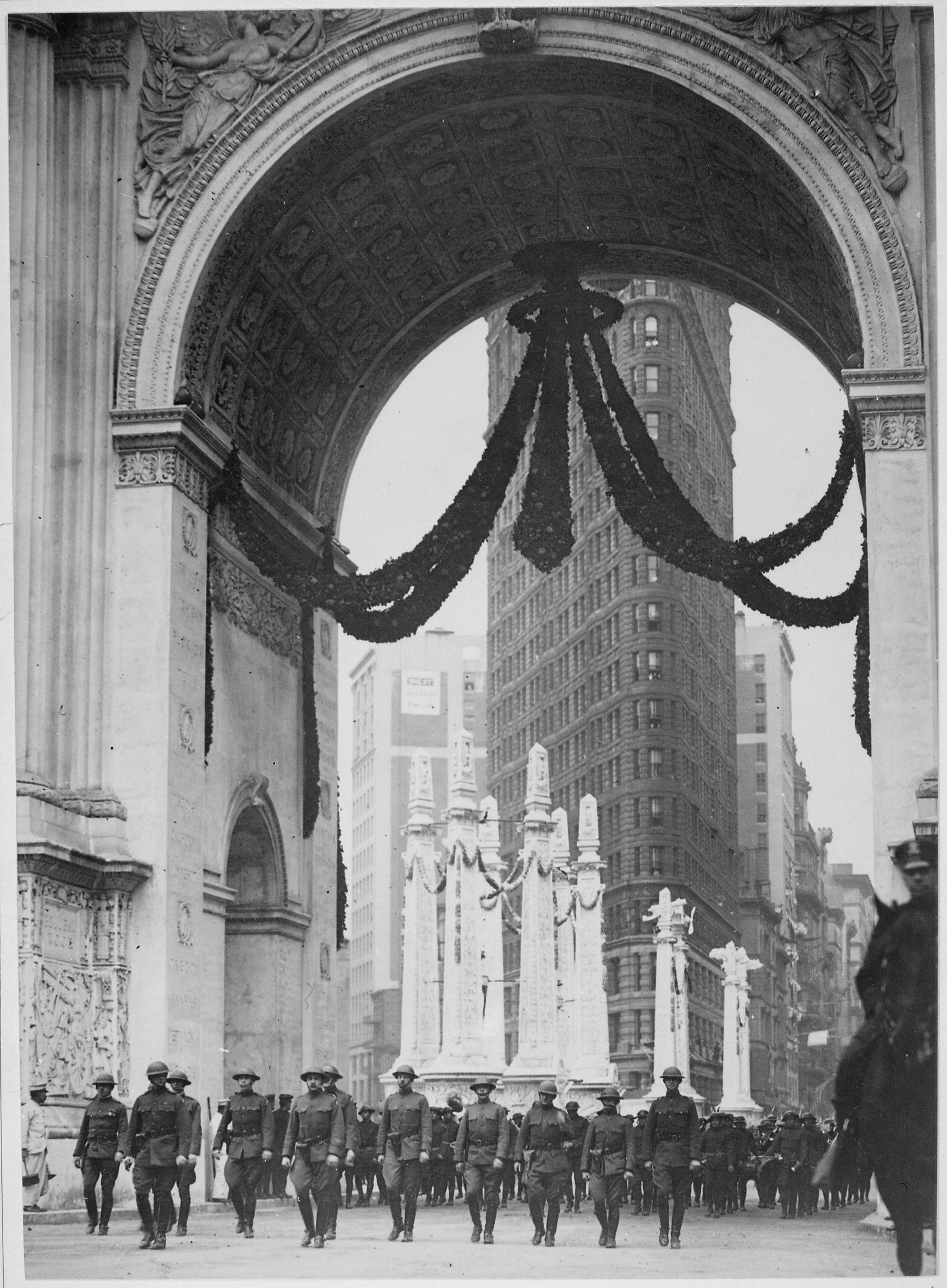 General notes: Use War and Conflict Number 721 when ordering a reproduction or requesting information about this image.